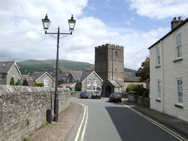 View north along a lane in Llangattock, Powys, Wales, to the 16th-century tower of St Catwg's parish church